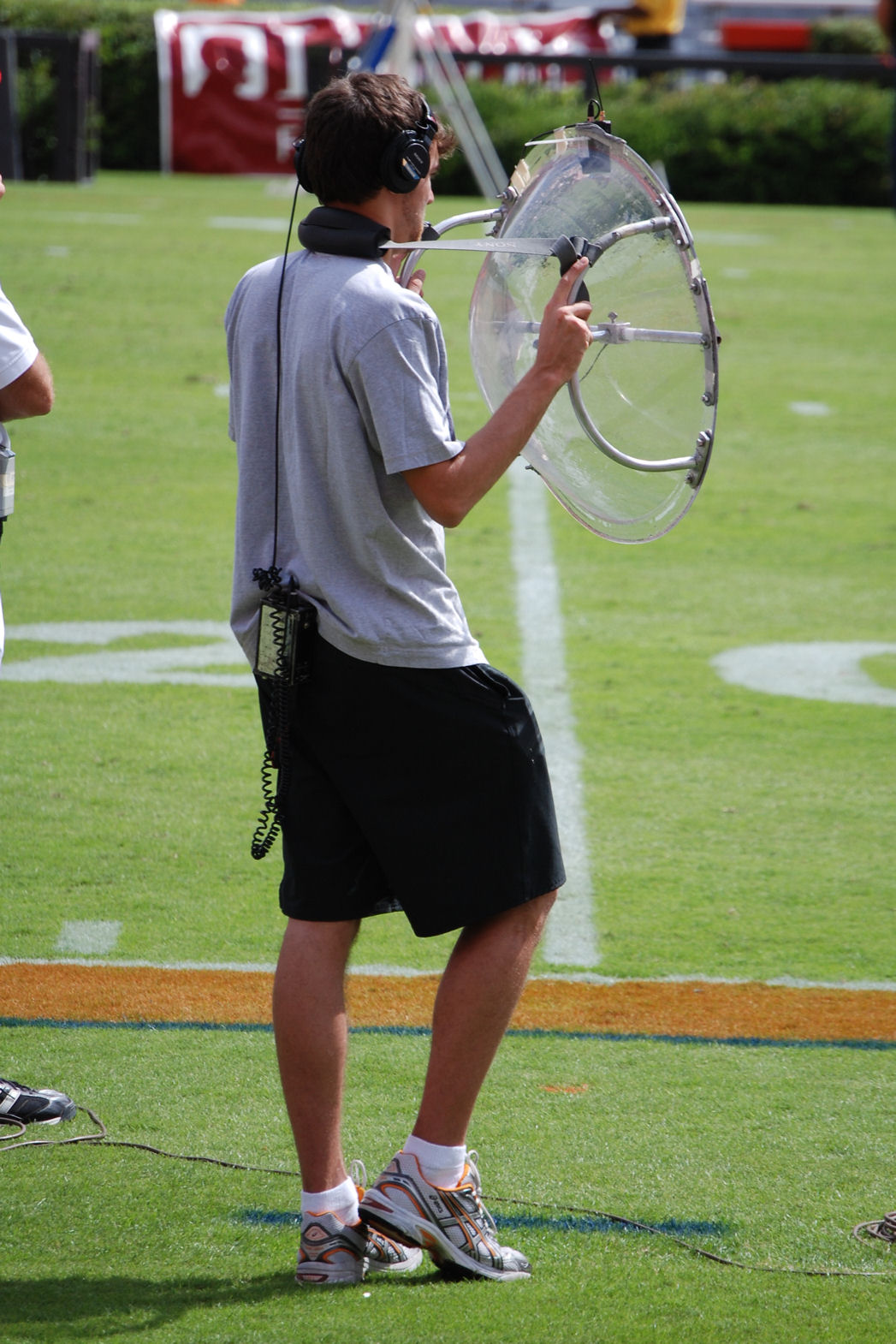 Parabolic microphone used by television broadcasting crew during the coverage of the 2007 Auburn University vs. Vanderbilt University college football game.